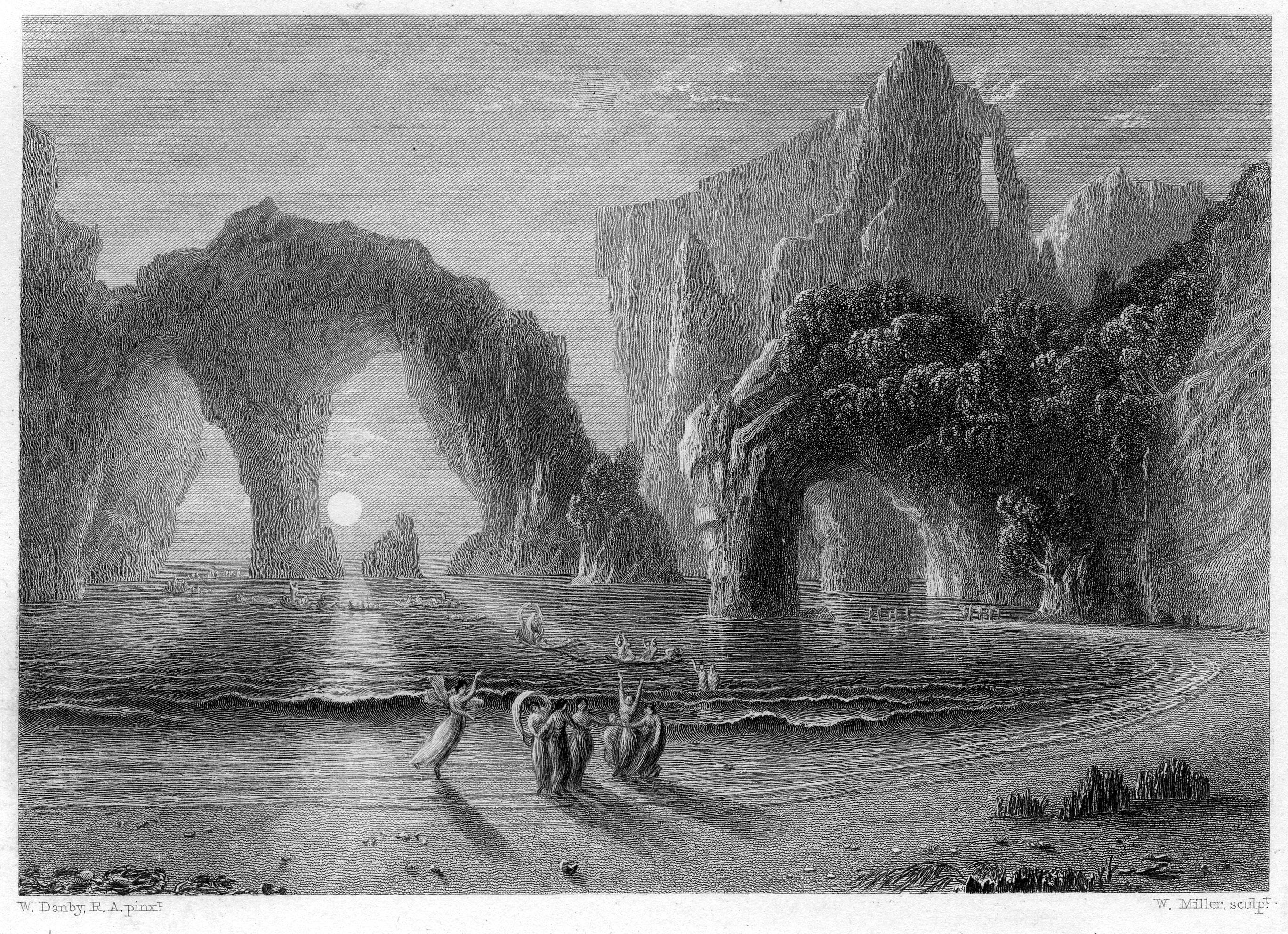 Fairies on the Seashore, engraving by William Miller (Miller paid £50-0-0 in ix 1832 for engraving), after Francis Danby R.A., published in The Literary Souvenir for 1833. Alaric A Watts. London, Longman, Rees, Orme, Brown and Green, 1833